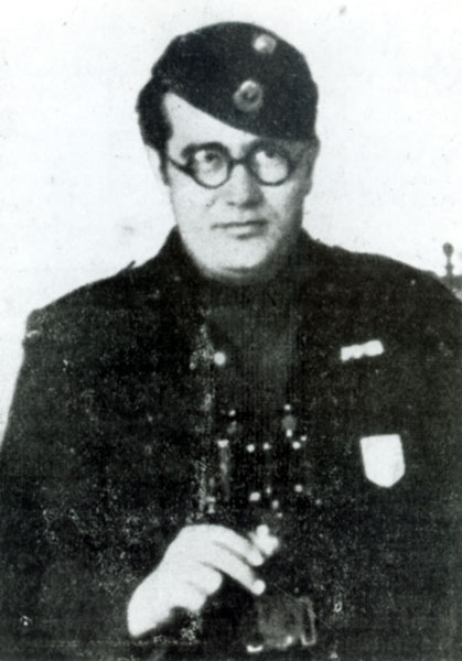 Ustaša war criminal Ljubo Miloš.